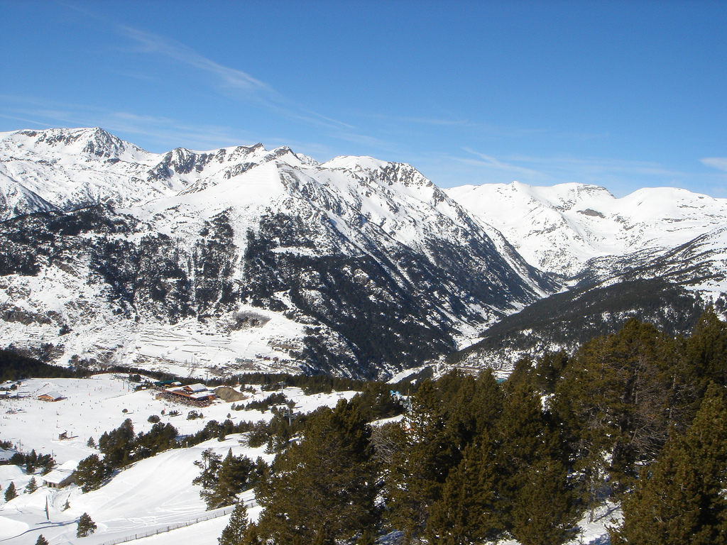 The Vallnord ski resort, Arinsal, Andorra, on 4 February 2006